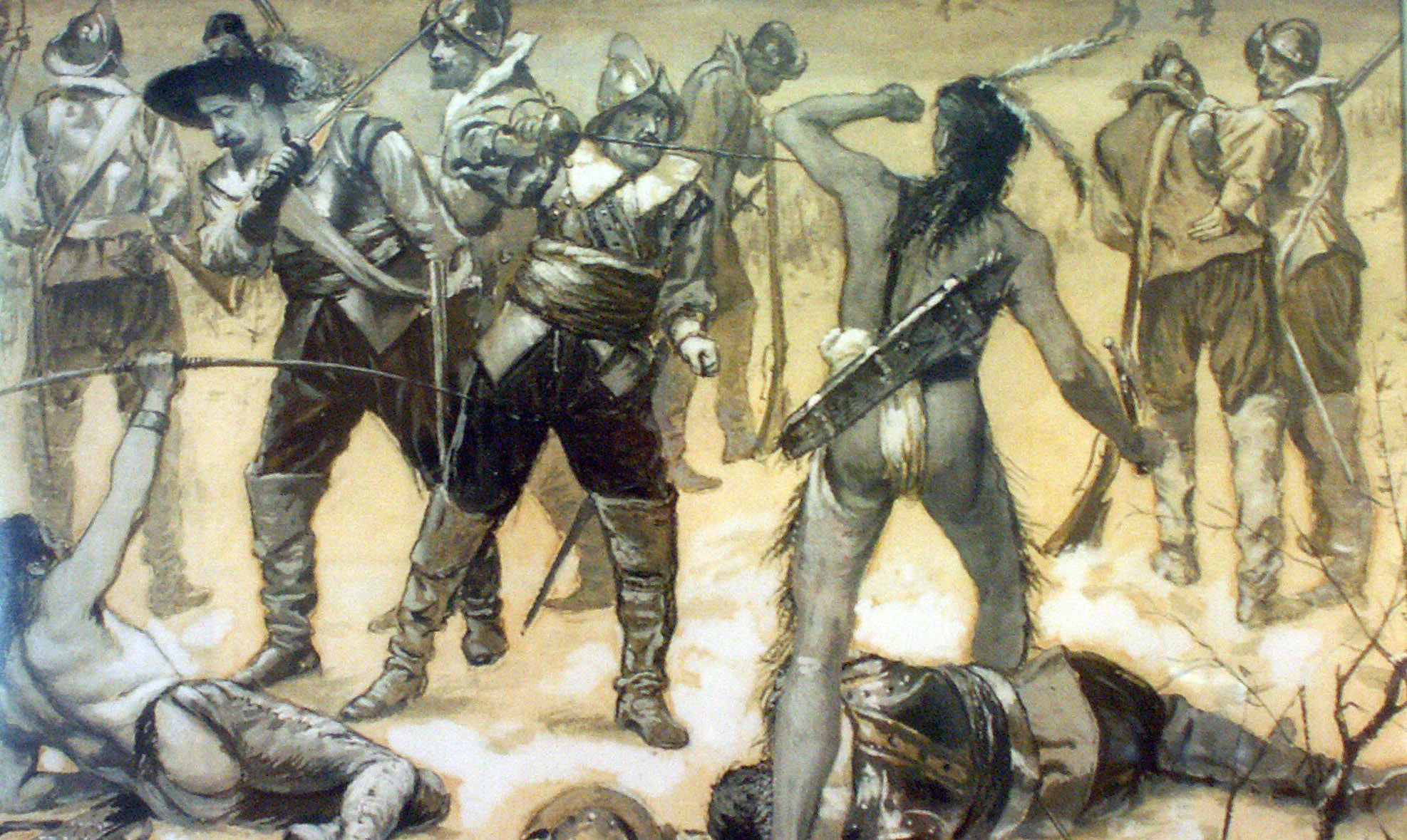 "February 22, 1637" by Charles Stanley Reinhart, 1890. Note: Lion Gardiner in Pequot War by Charles Stanley Reinhart from watercolor previously at the Manor House in Gardiner Island from a July 2007 exhibit by the East Hampton Historical Society on Gardiners Island. Photo by poster in July 2007.